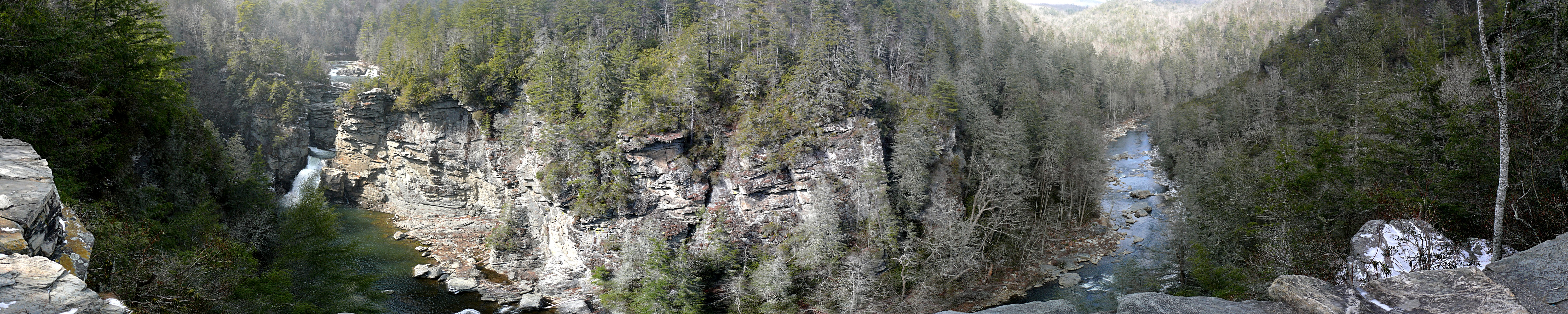 A 200° view of Linville Falls and the Linville Gorge from the Chimney Rock overlook in Burke County, North Carolina, USA. Panoramic image compiled with Autostitch from twenty individual photographs, each taken with a Panasonic Lumix DMC-FZ50 mounted to a Panosaurus tripod head.